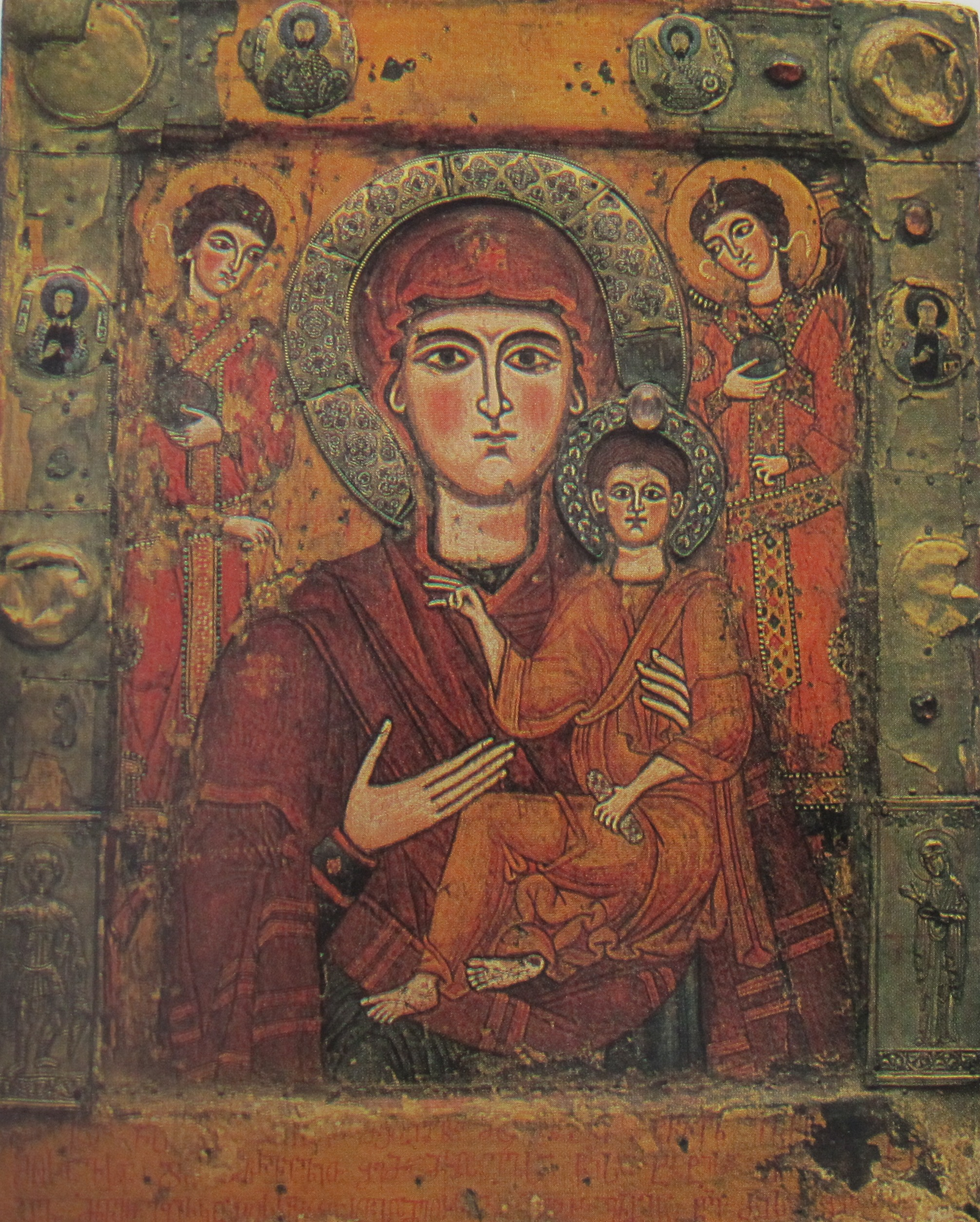 The Virgin and Child. Icon from Tsilkani